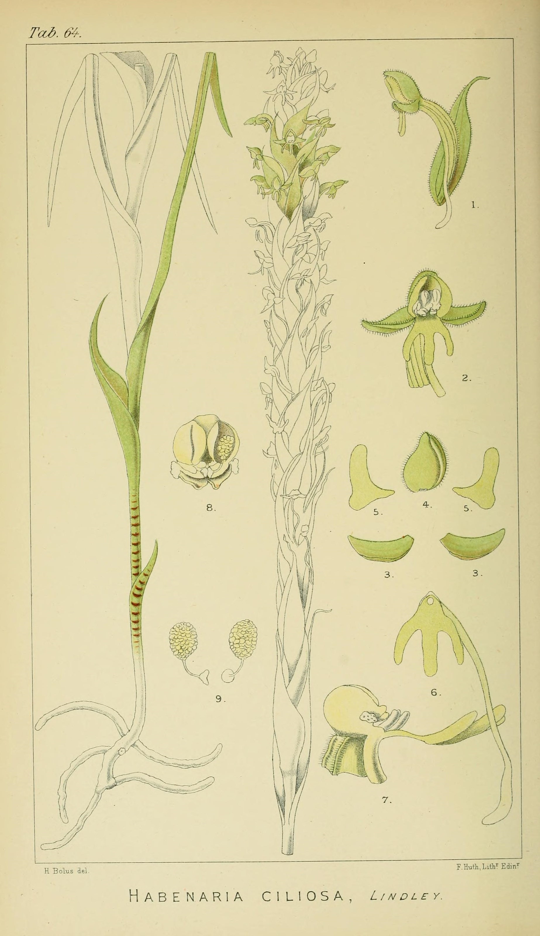 Tccd. 6^. F.Hutli.Litli'Edin HaBENARIA CILIOSA, Lindley.